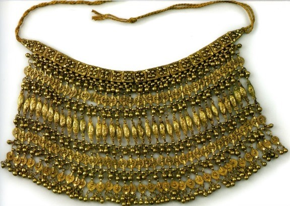 Necklace. Made in San'a, Yemen, 20th century. Gilt silver filigree, granulation, copyrighted by The Israel Museum, Jerusalem, and photographed by David Harris (Hebrew: דוד חריס)